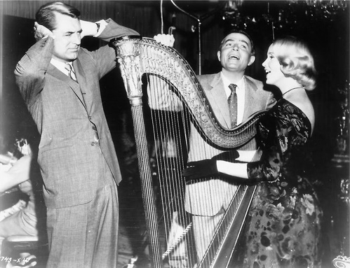 Cary Grant, James Mason & Eva Marie Saint still of the 1959 film North by Northwest, director: Alfred Hitchcock